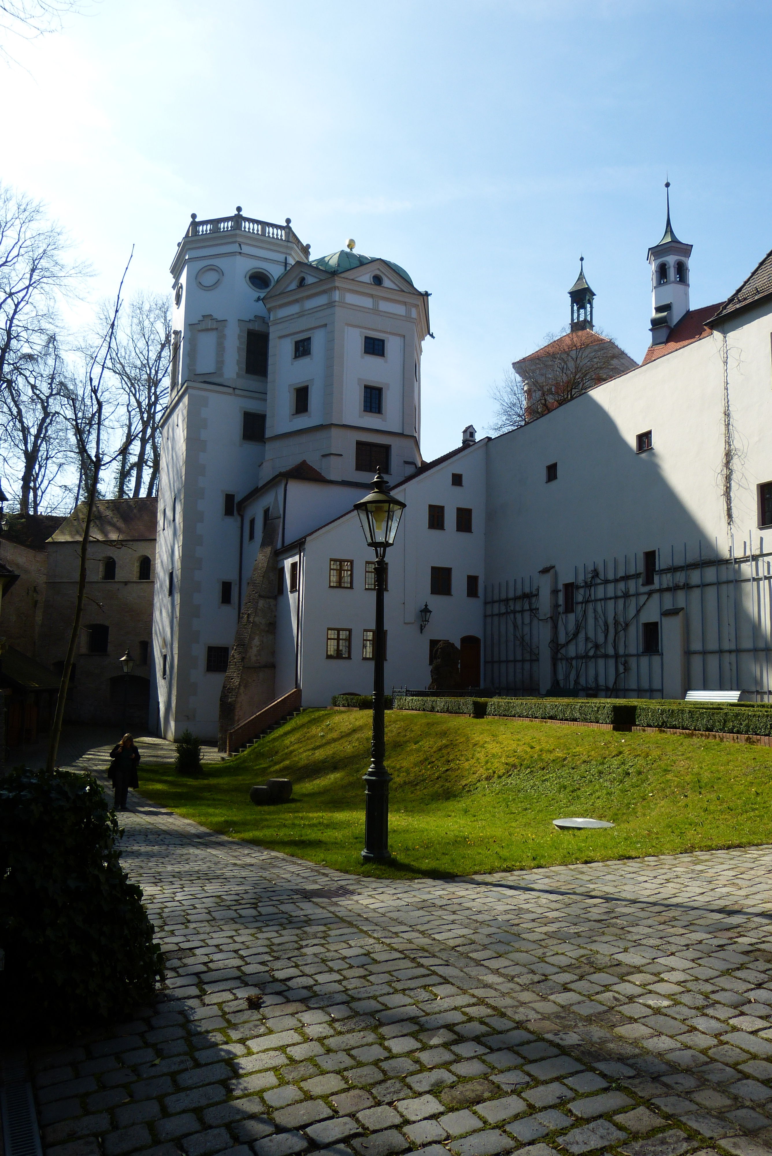 Augsburg, Wassertürme am Roten Tor, vom Handwerkerhof aus fotografiert. This is a photograph of an architectural monument.